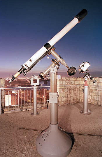 Instruments of the Popular Observatory in Belgrade: Zeiss-110/2000 and ТАЛ-200/2000.